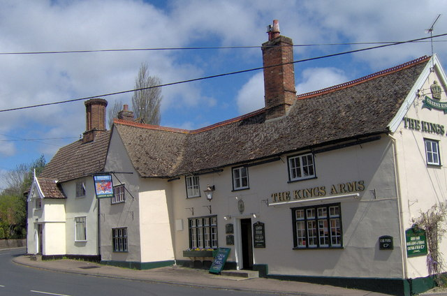 King's Arms Inn, Haughley This pub in the village centre is marked on old and new maps of the village. See Stowmarket history site for historic photos.